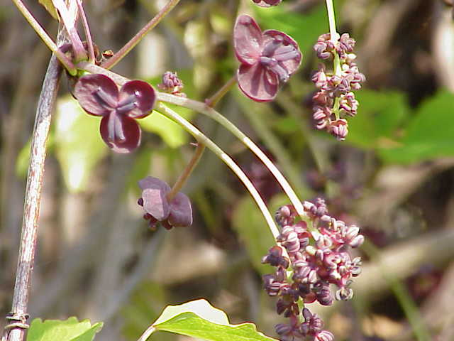 Name:Akebia trifoliata Family:Lardizabalaceae